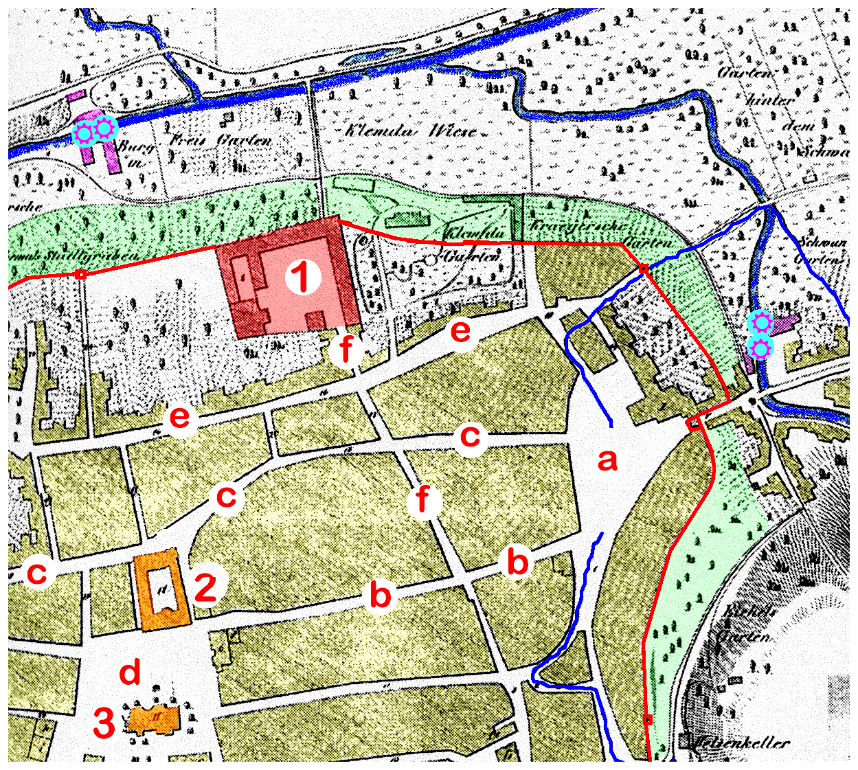 Map from Eisenach, 1837, including the "Klemme" - a castle with moat in the northern wall